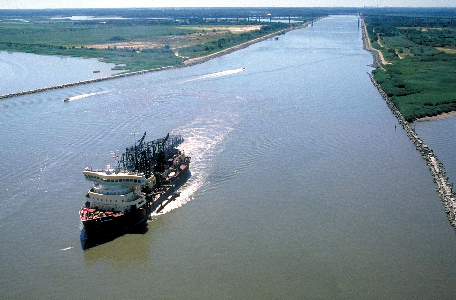 The eastern entrance to the Chesapeake & Delaware Canal at Reedy Point, Delaware. Fort Dupont State park is at the right. The Reedy Point Bridge, carrying Delaware State Route 9, is visible in the distance. The U.S. Army Corps of Engineers hopper dredge McFarland is exiting the channel. View is to the east. The channel entrance is located on the Delaware River in New Castle County, Delaware, USA. IMO Number: 7739856 MMSI Number: 338997000 Callsign: AEGB Length: 100 m Beam: 24 m